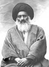 Ayat-ollal saheb javaher